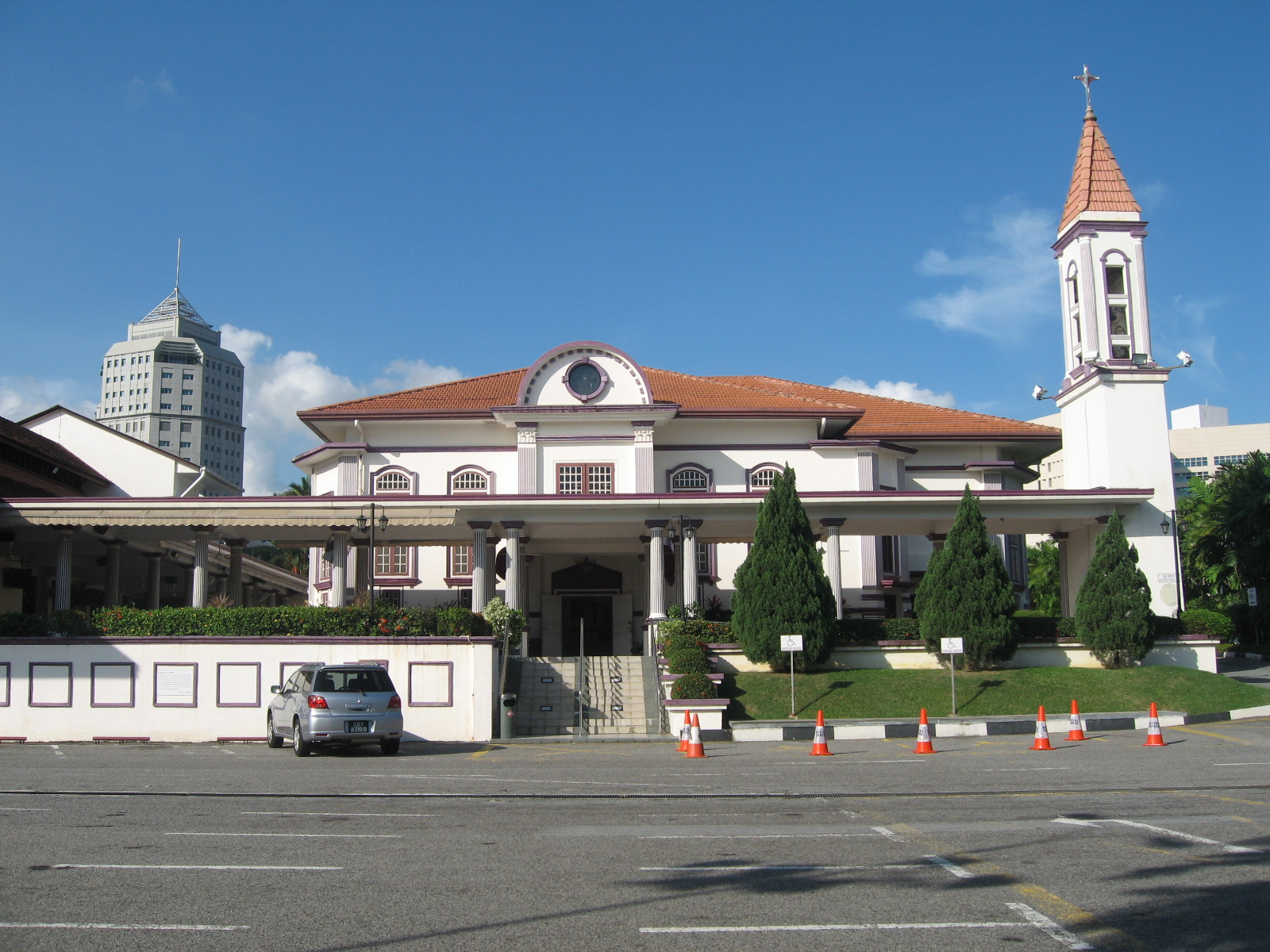 Novena Church.